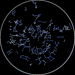 Avec l'aimable autorisation de Alexandre N.Isis, chercheur en astronomie égyptienne. On peut aisément observer les 48 constellations de Claude Ptolémée, ces constellations se trouvent précisément là, où elles doivent être dans le ciel mais aussi selon leur distance respectives entre elles. D'autres constellations, notamment quelques unes de l'hémisphère Sud sont aussi visibles. Mais s'y trouvent aussi des constellations non répertoriées par l'UAI.